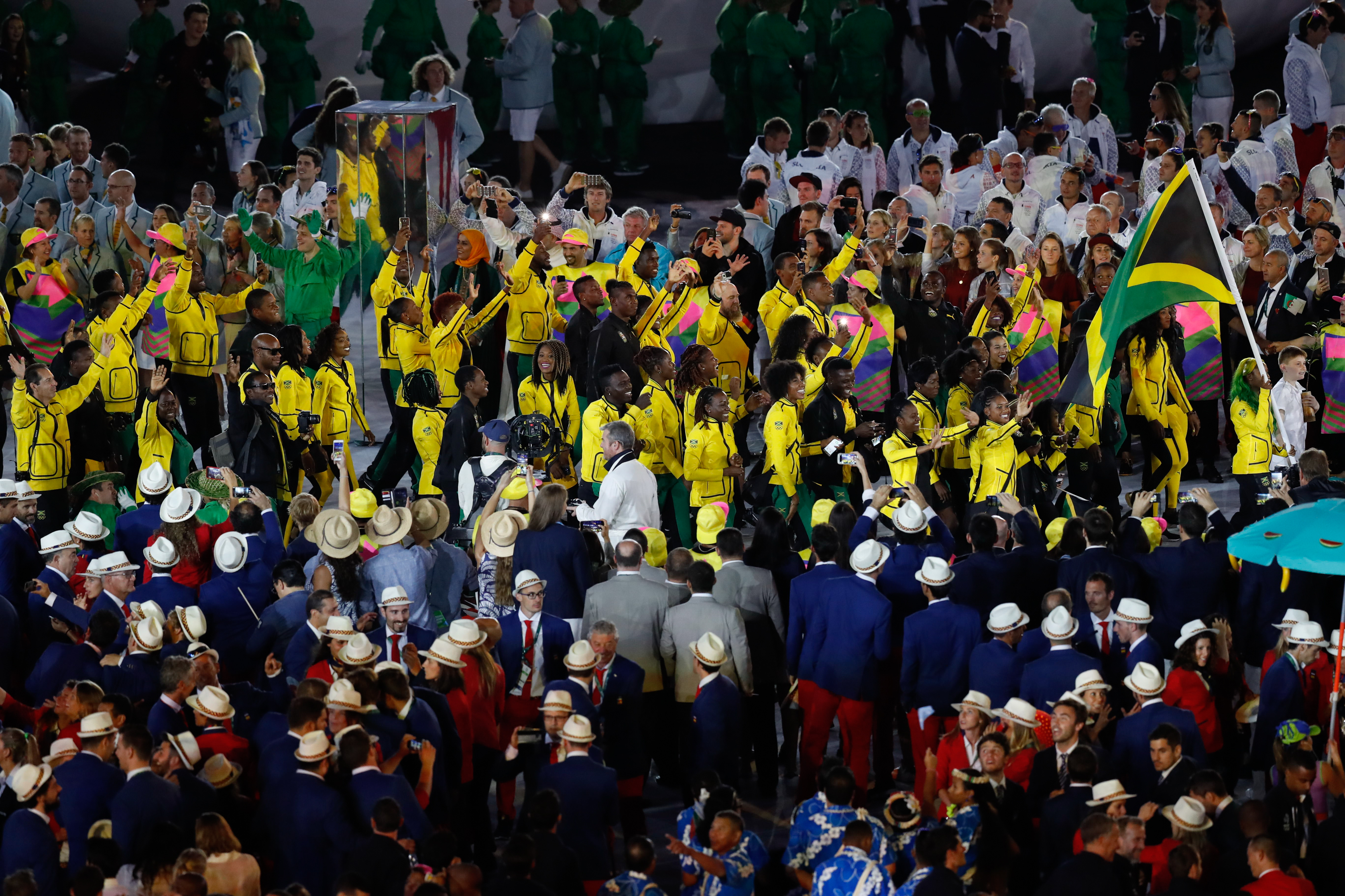 Rio de Janeiro - Cerimônia de abertura dos Jogos Olímpicos Rio 2016 no Estádio do Maracanã. (Fernando Frazão/Agência Brasil)